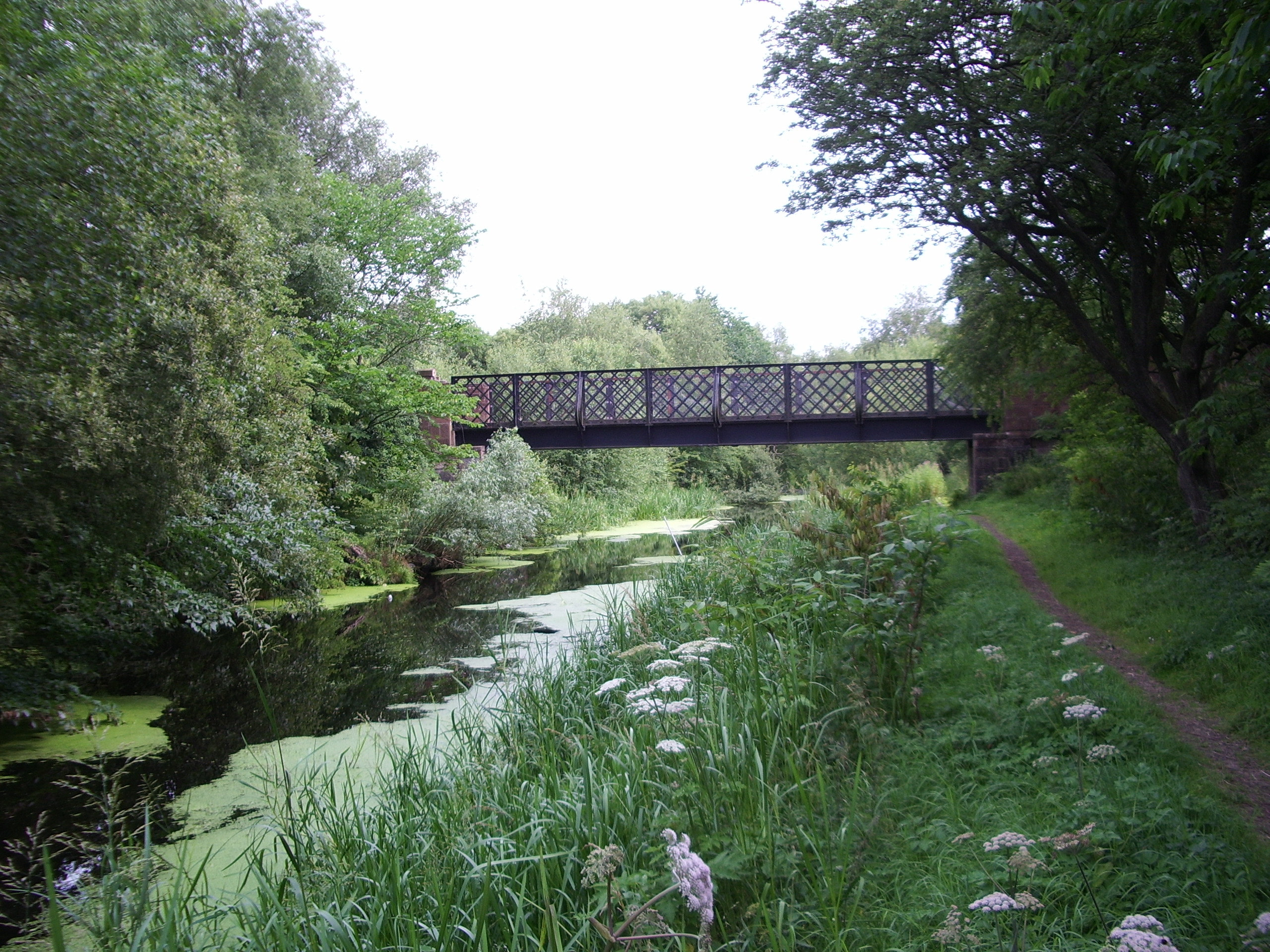 Monkland Canal, Drumpelier Home Farm bridge, Coatbridge, Scotland, south bank, looking east